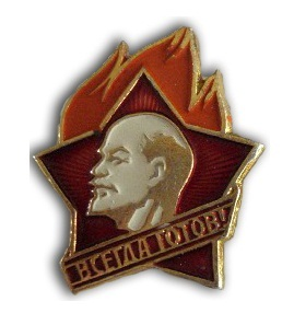 Membership badge Pioneer Organization of the Soviet Union